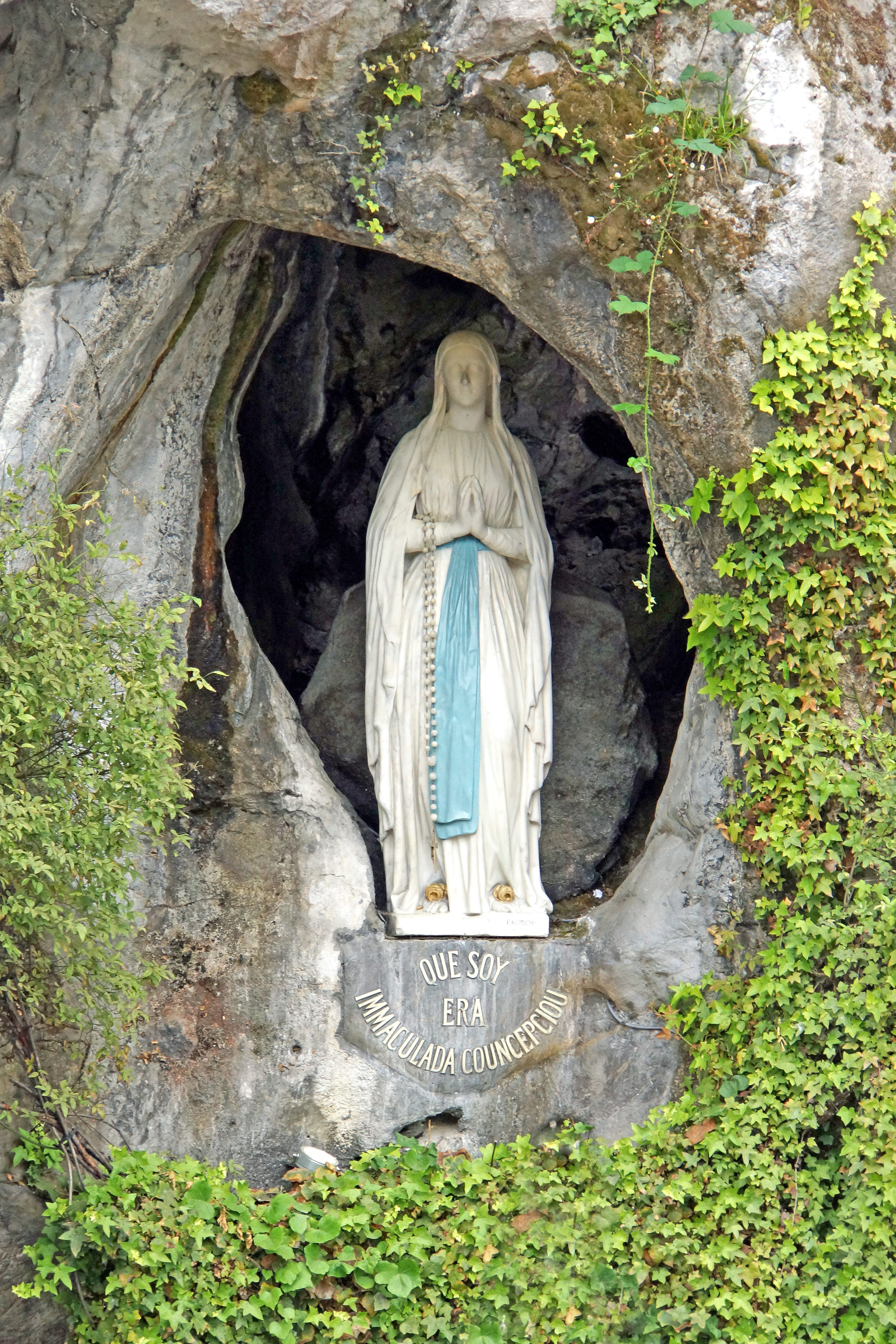 PLEASE, NO invitations or self promotions, THEY WILL BE DELETED. My photos are FREE to use, just give me credit and it would be nice if you let me know, thanks. The grotto where St Bernadette's visions took place is very simple and stark. Above the main recess is the niche where the apparitions took place and Fabisch's 1864 statue of Our Lady of Lourdes now stands.